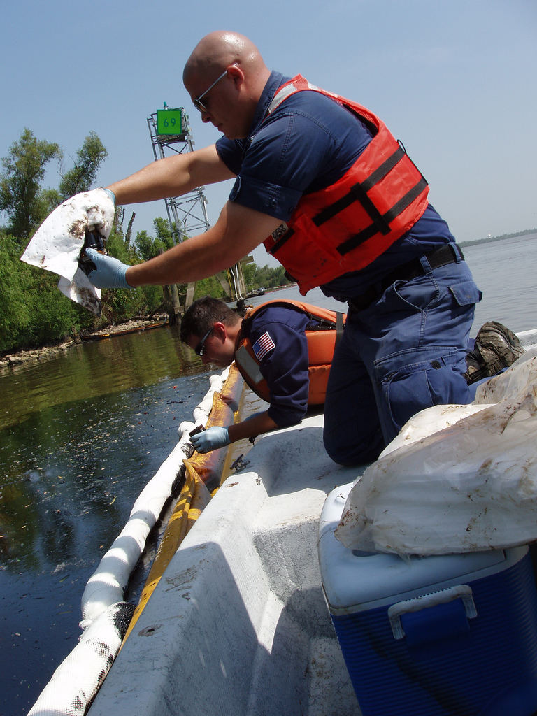 U.S. Coast Guard Marine Science Technicians collecting oil samples, Mississippi River Oil Spill, New Orleans. July 28, 2008. Credit: Anthony Velasco/U.S. Fish and Wildlife Service.